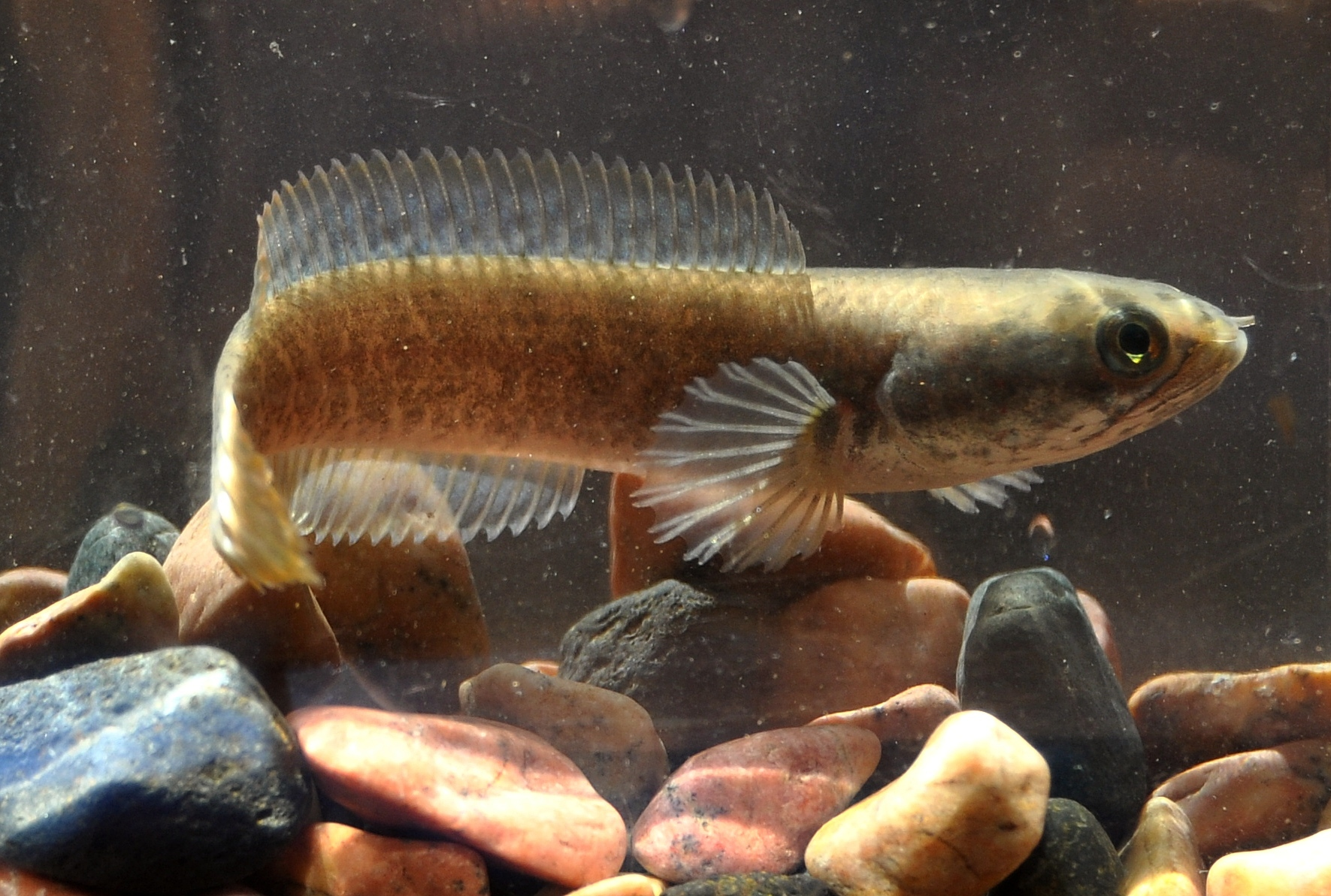 Dwarf snakehead, Channa gachua, 60mm SL. From Karawang, West Java. Dorsal fin 34, anal 22, pectoral 13, pelvic present.